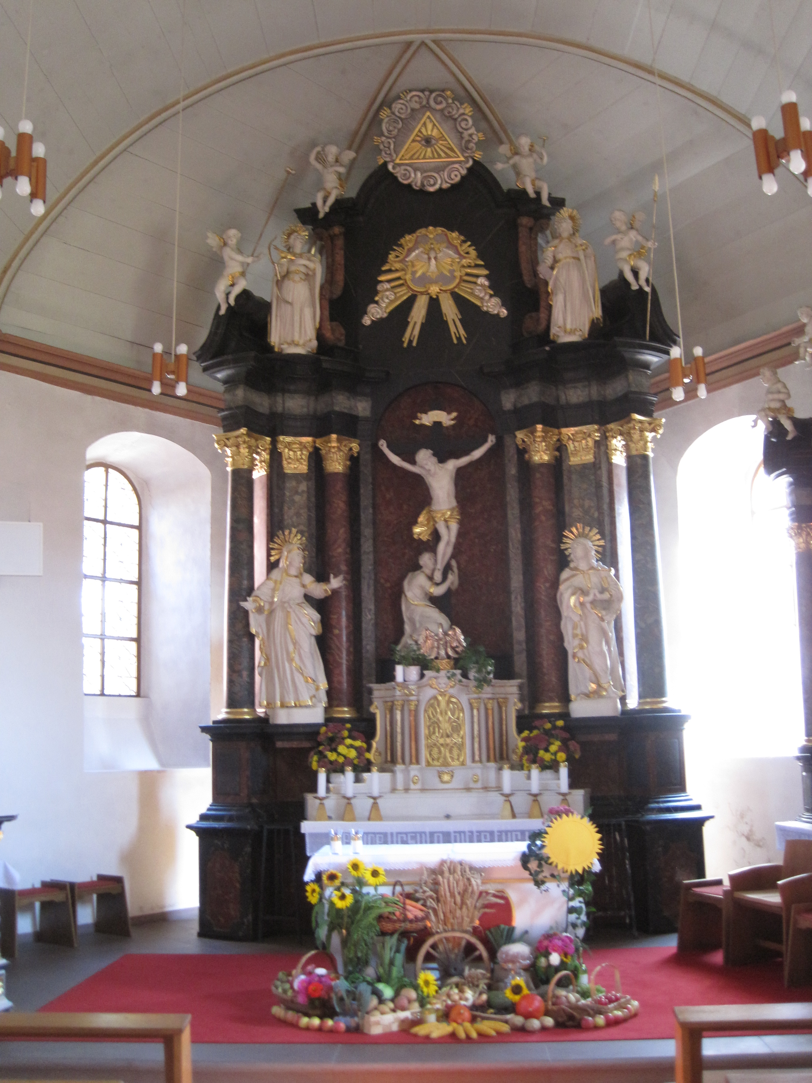 Altar in Martinfeld church